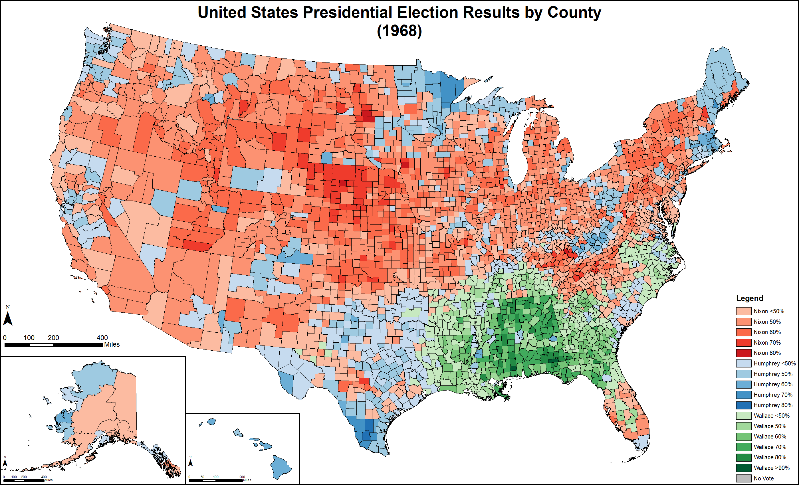 Presidential election results by county (1968). Colors based on Colorbrewer 2.0.